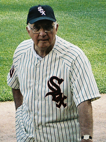 Billy Pierce at The Turn Back the Clock Game commemorating the Los Angeles Dodgers' first official games vs. the White Sox since the 1959 World Series on June 18, 2005.